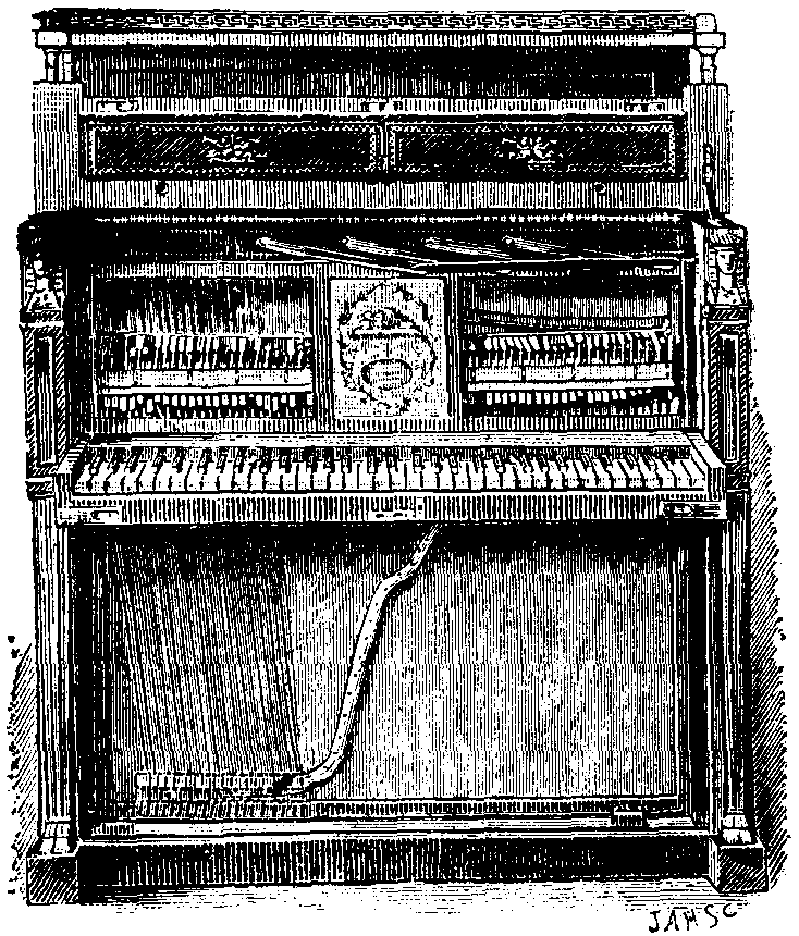 Hawkins's portable grand piano of 1800. An upright instrument, the original of the modern cottage piano or pianino. In Messrs Broadwood's museum and unrestored.